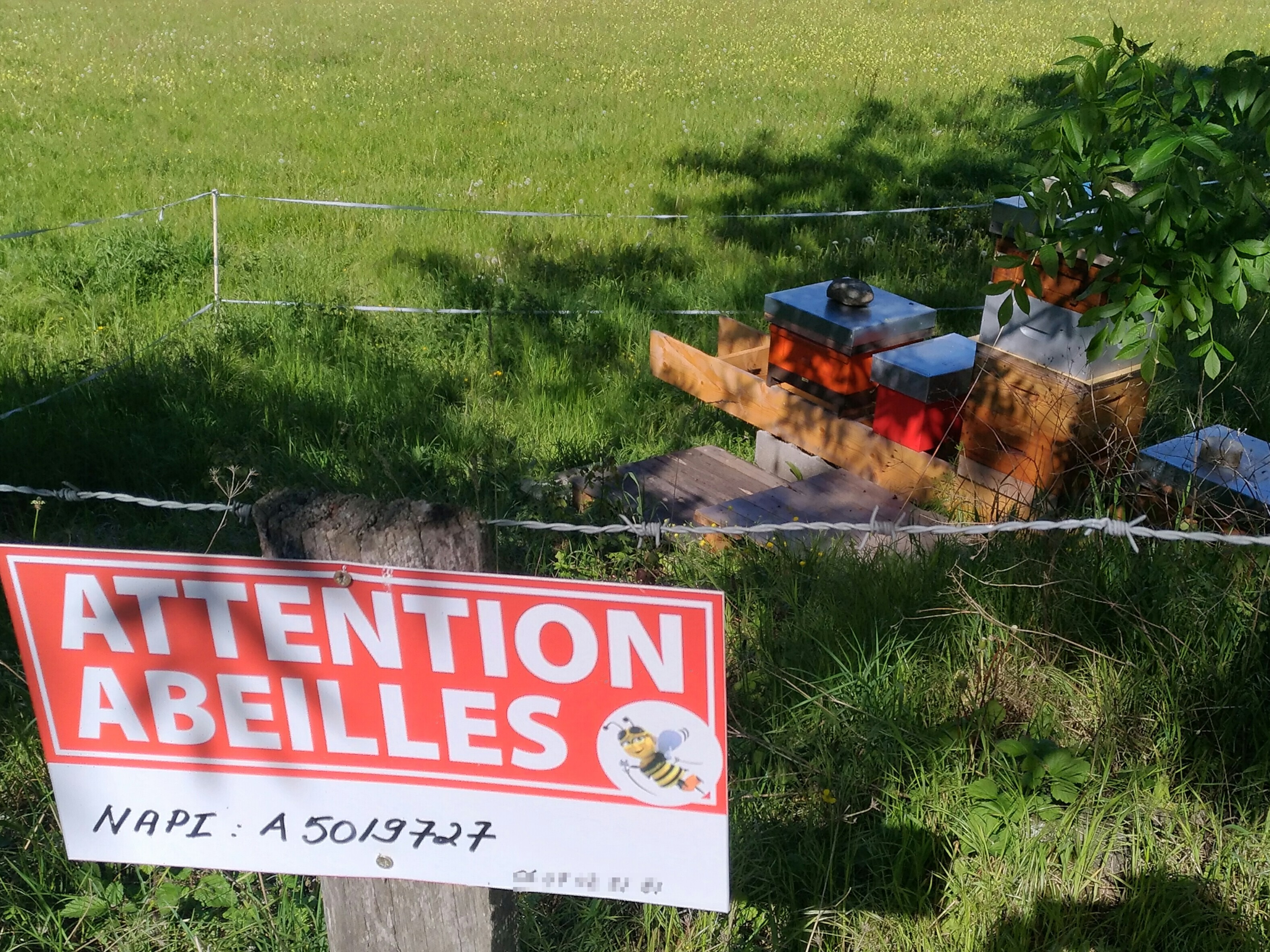 Sign board to be near the apiary, and indicating the NAPI (Beekeeper registration number against the french administration)